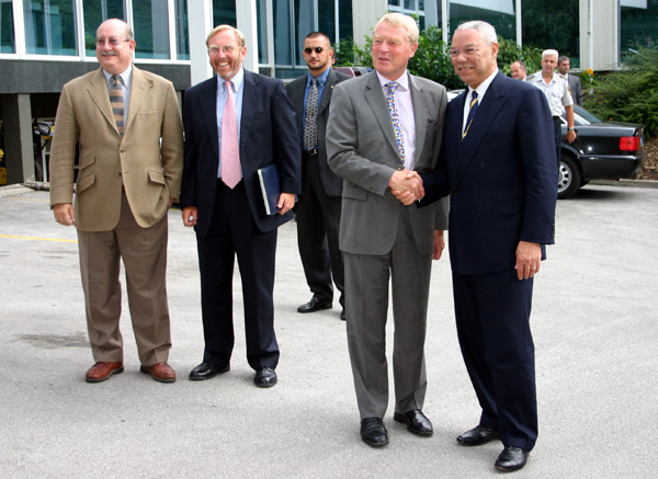 Secretary of State Colin Powell met with High Representative and European Union Special Representative for Bosnia and Herzegovina Paddy Ashdown.